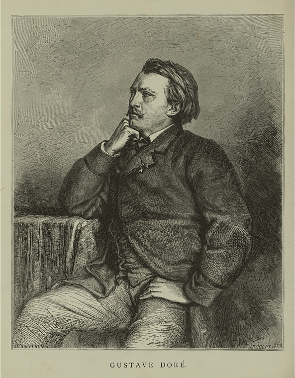 Wood-engraving of French artist Gustave Doré